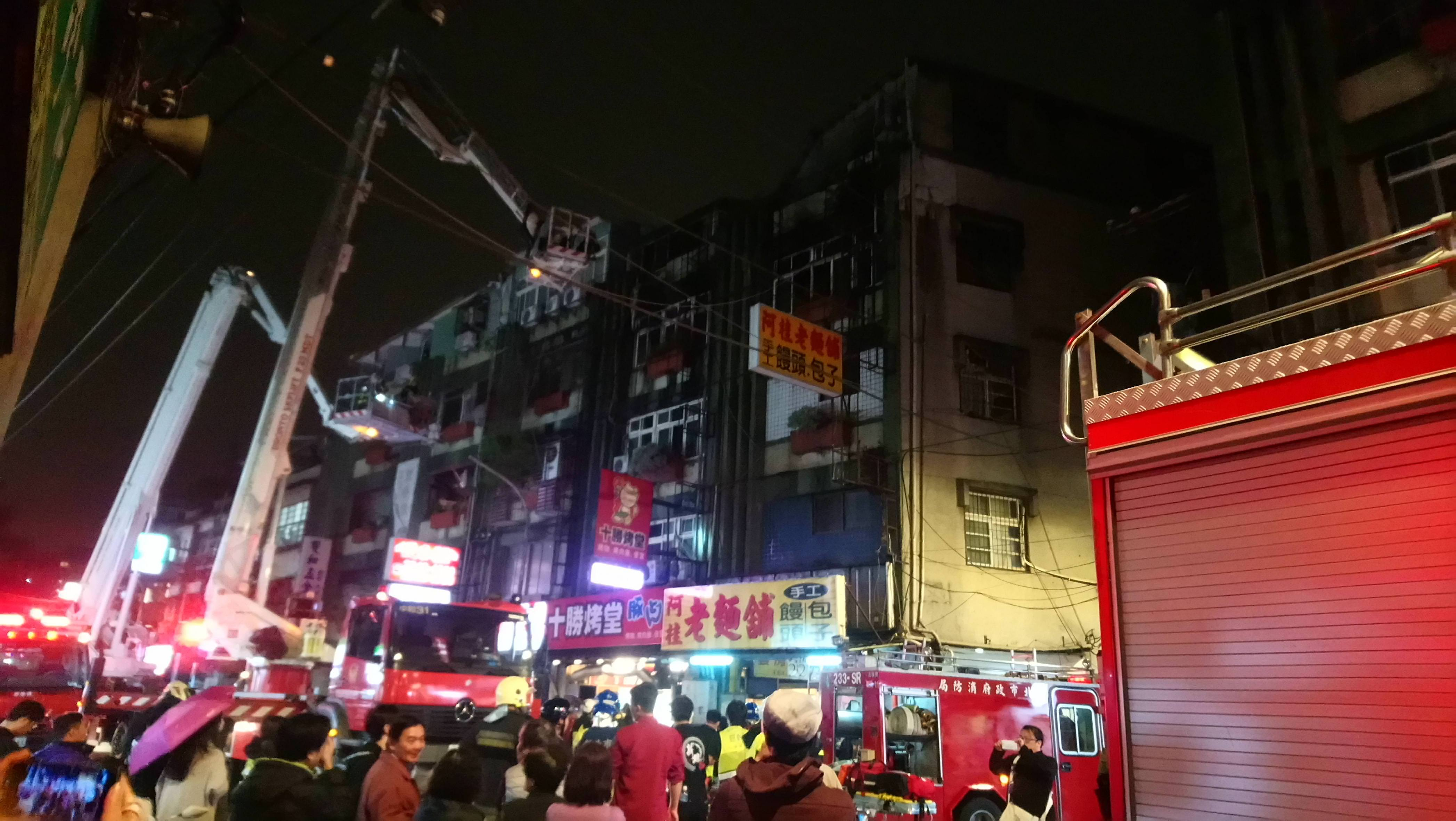 Aapartment Fire in Nanshijiao on November 22, 2017. 中文（台灣）: 2017年11月22日，南勢角公寓火警，新北市政府消防局消防車停靠下方。